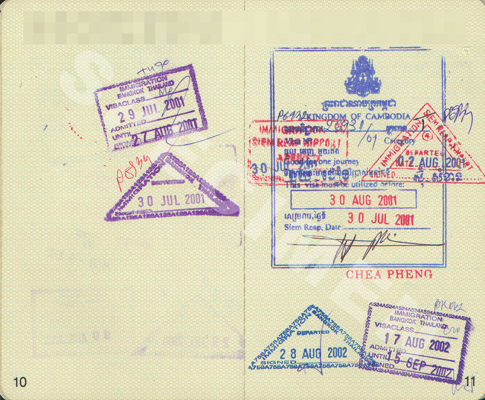 Visa-stamps; immigration at Bangkok International Airport (Don Mueang; 2001, 2002), Thailand, and Siem Reap International Airport (2001), Cambodia